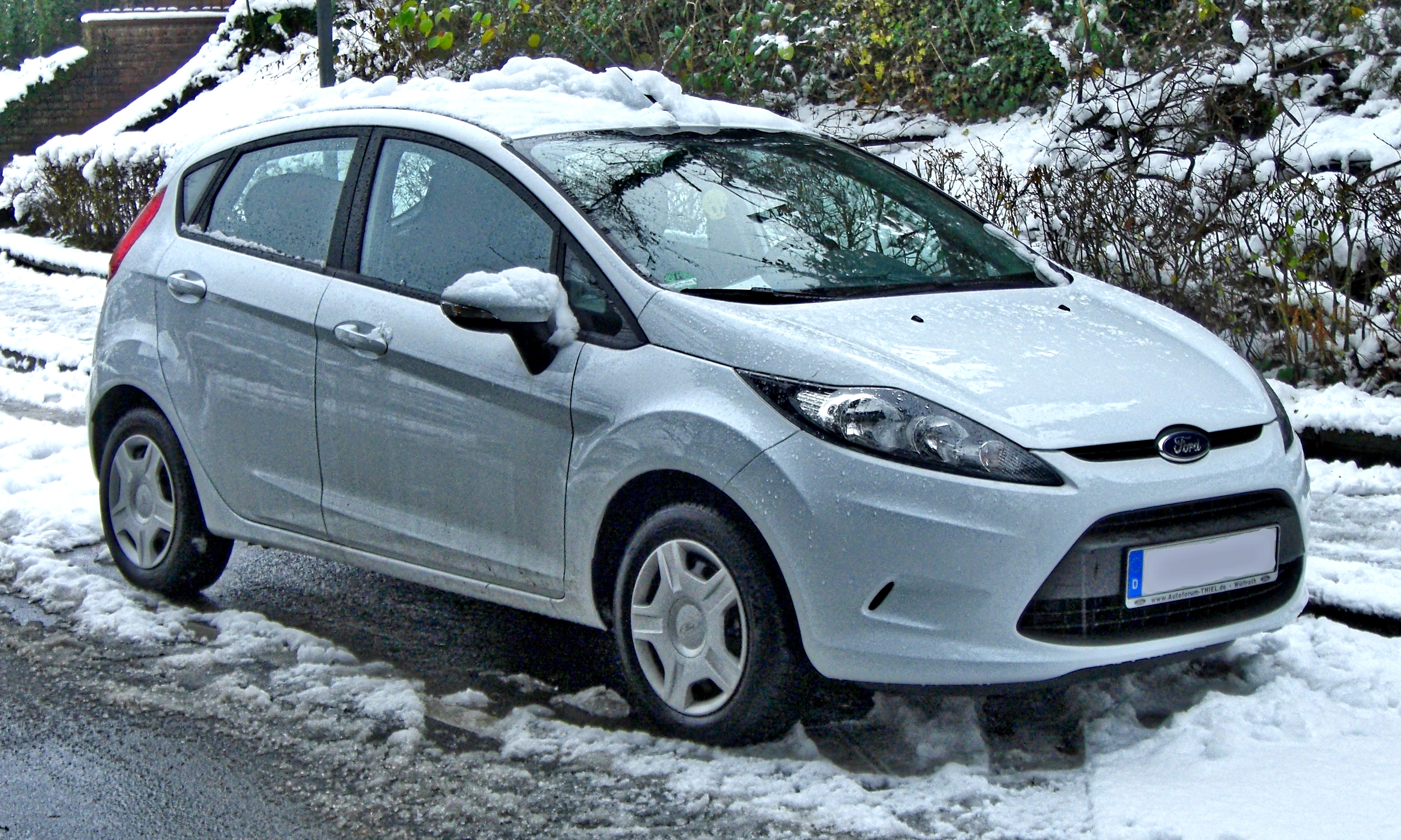 White Ford Fiesta MK6 „Trend“ (since 2008) in snow